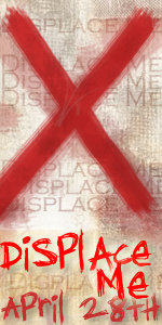 Created by Erin Girardi to promote the Displace Me event.